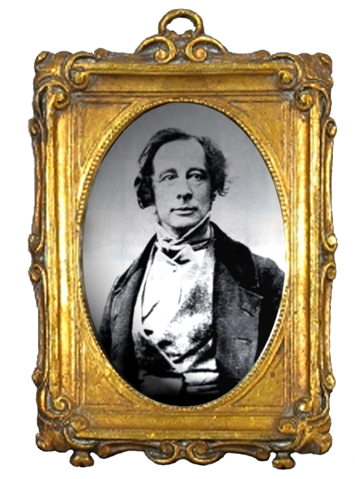 photograph of Charles Dickens c. 1852